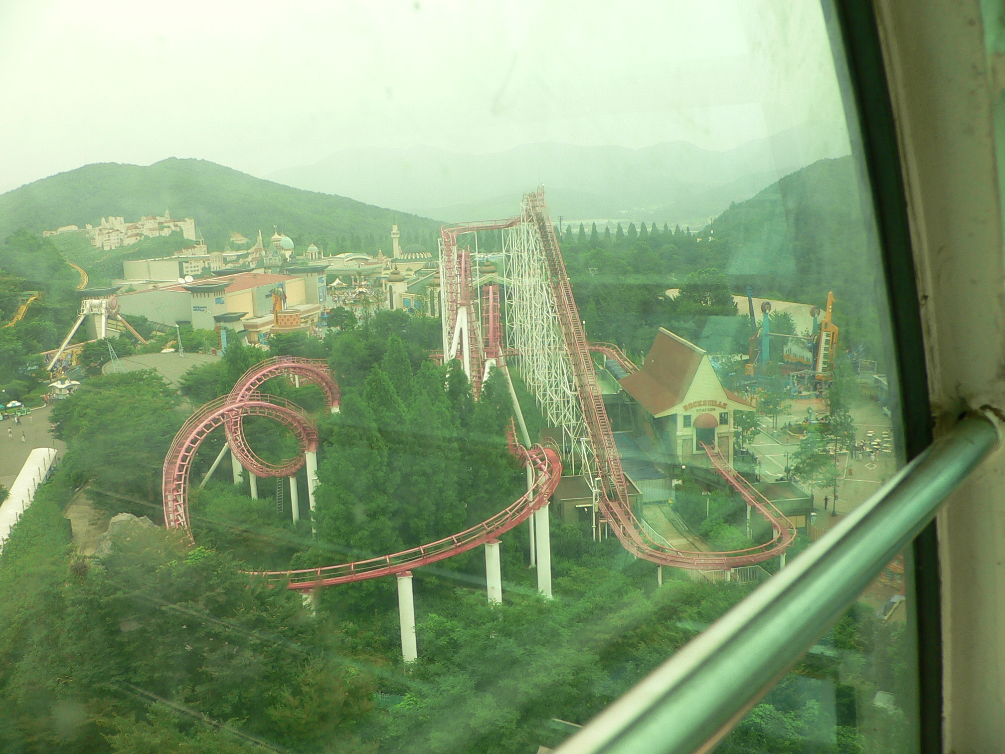 Everland, the biggest theme park of South Korea located in Yongin, Gyeonggi Province.